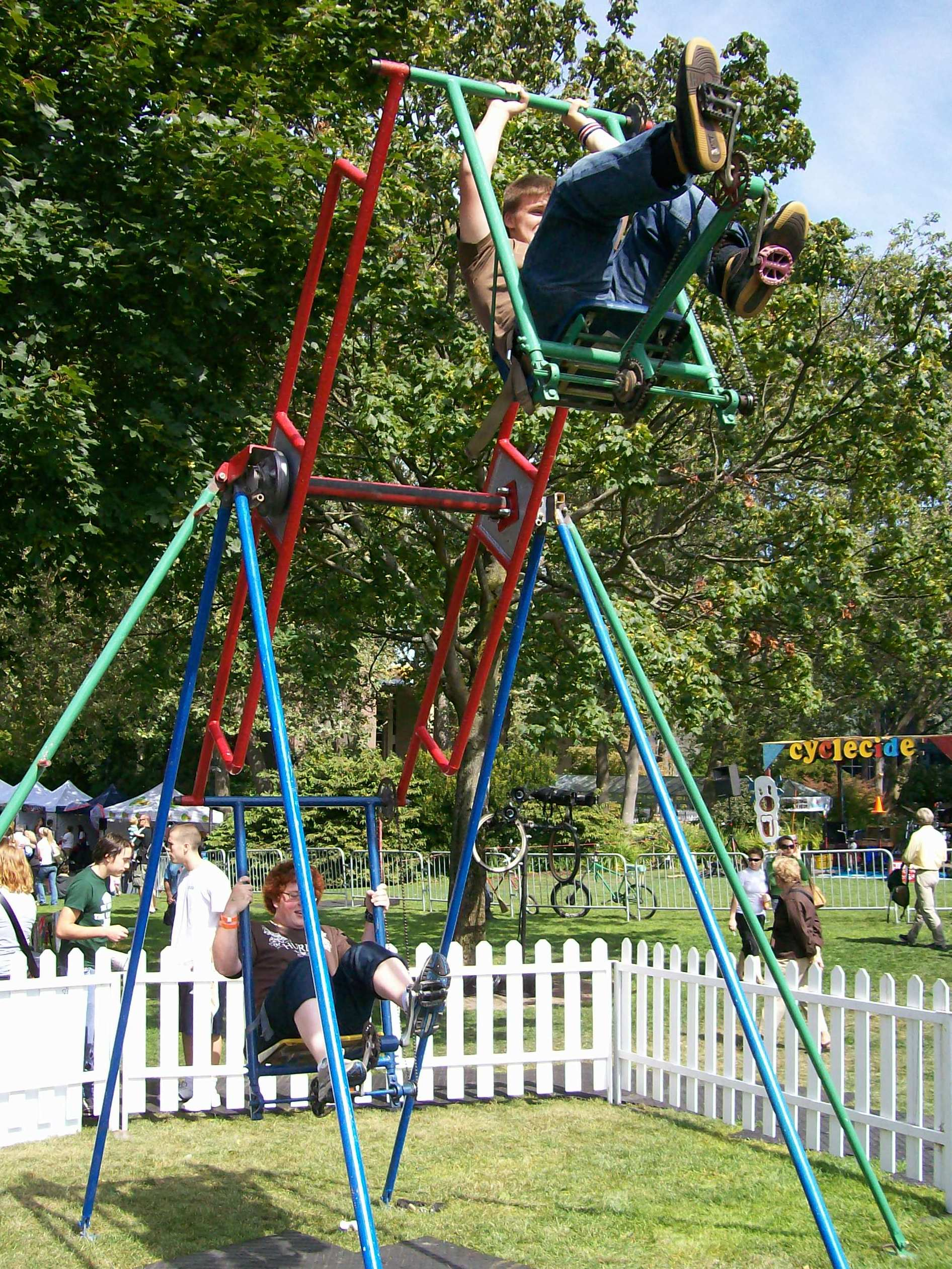 Cyclecide bicycle ferris wheel at Bumbershoot 2007, Seattle, Washington. Photo by Dave Cohoe (2007).